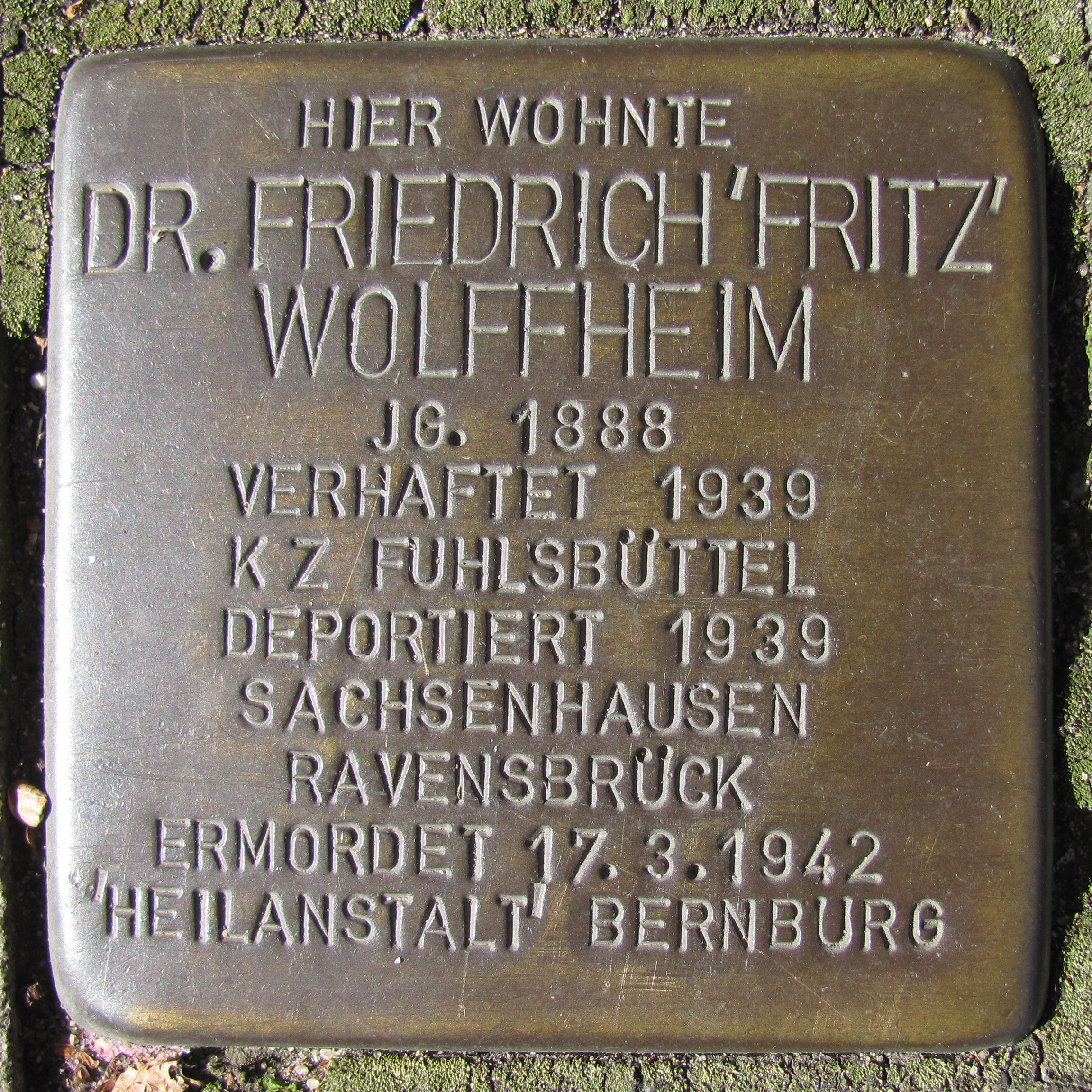 Plaque commemoratingFriedrich Wolffheim in front of the house Friedrich-Ebert-Damm 49